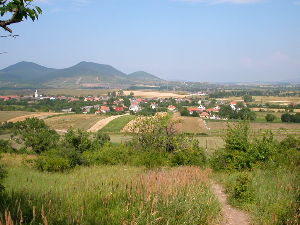 Karolyfalva